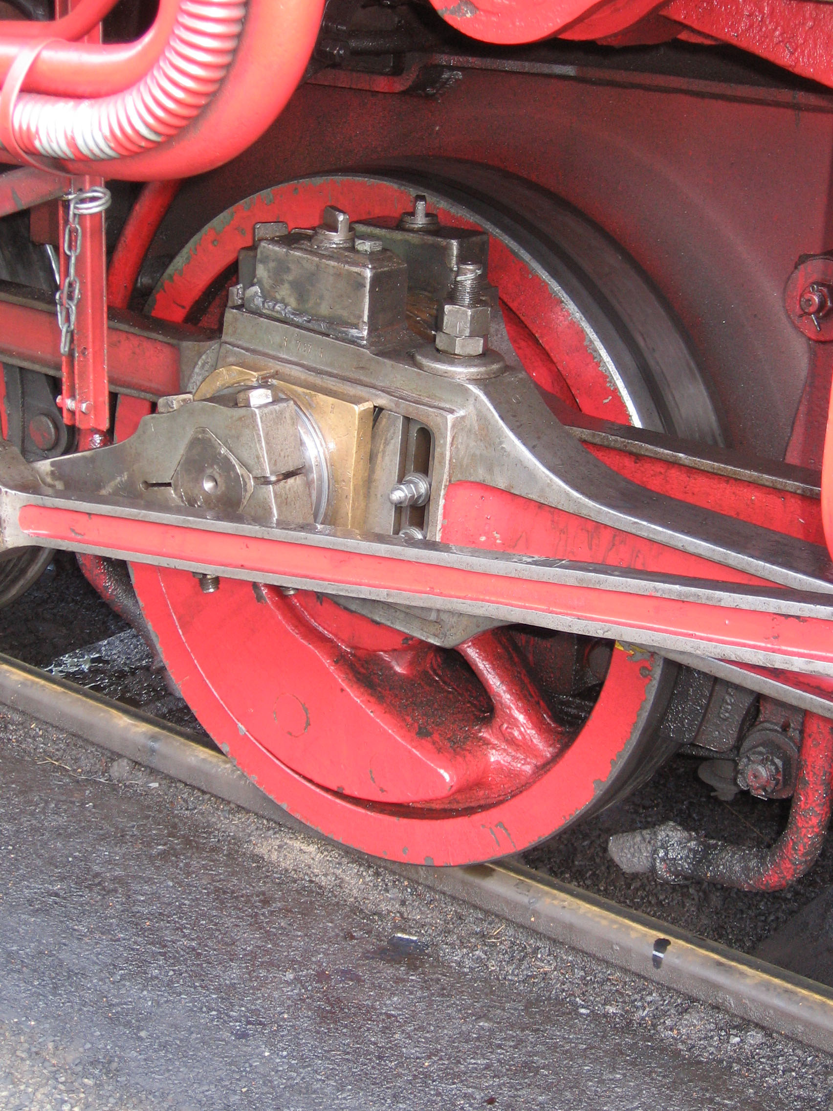 Driving wheel 99 787 SOEG without flange